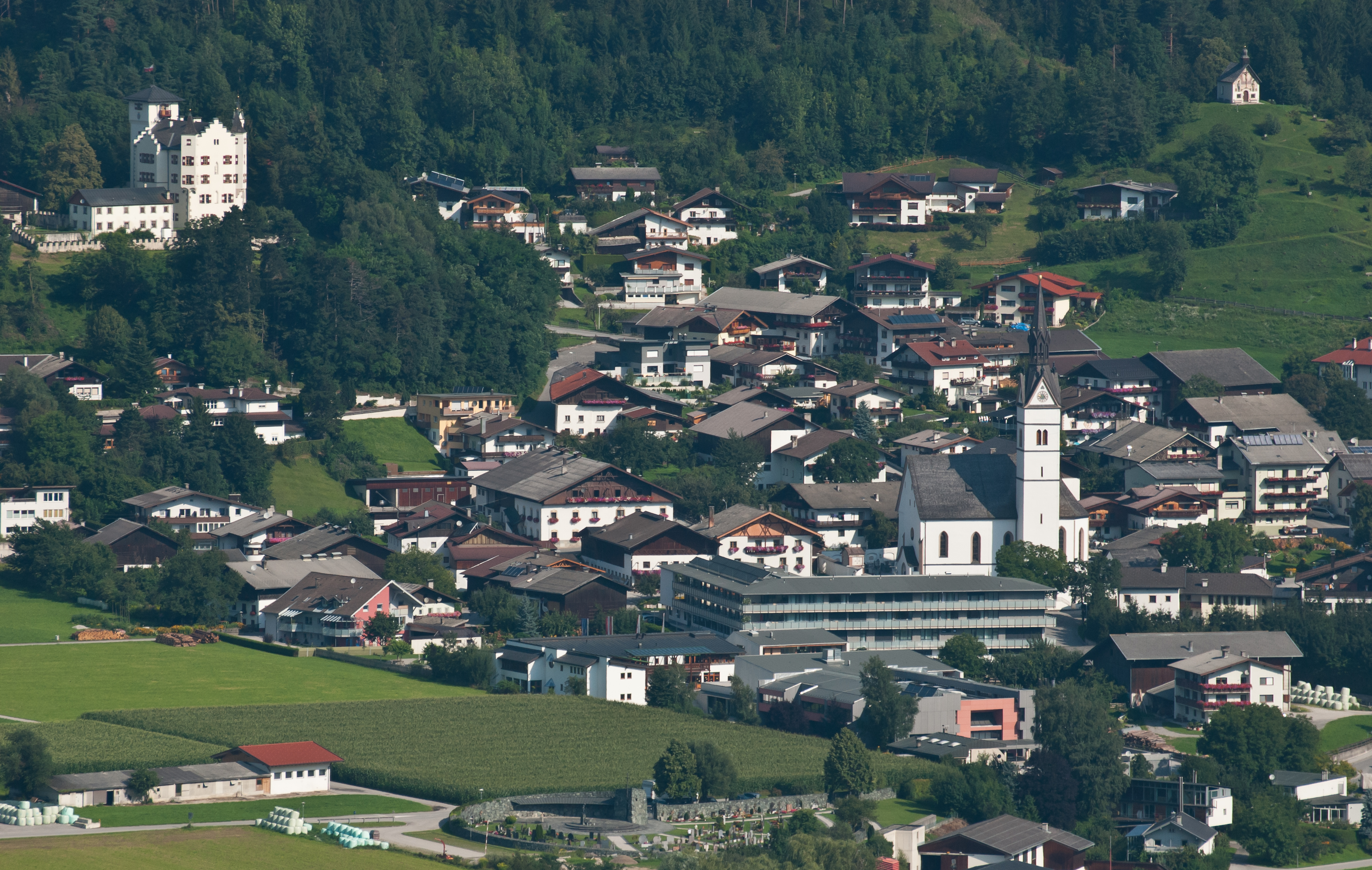 Vomp from south, on the left side Schloss Sigmundslust and on the right side Kreuzbühelkapelle , in the center the parish church